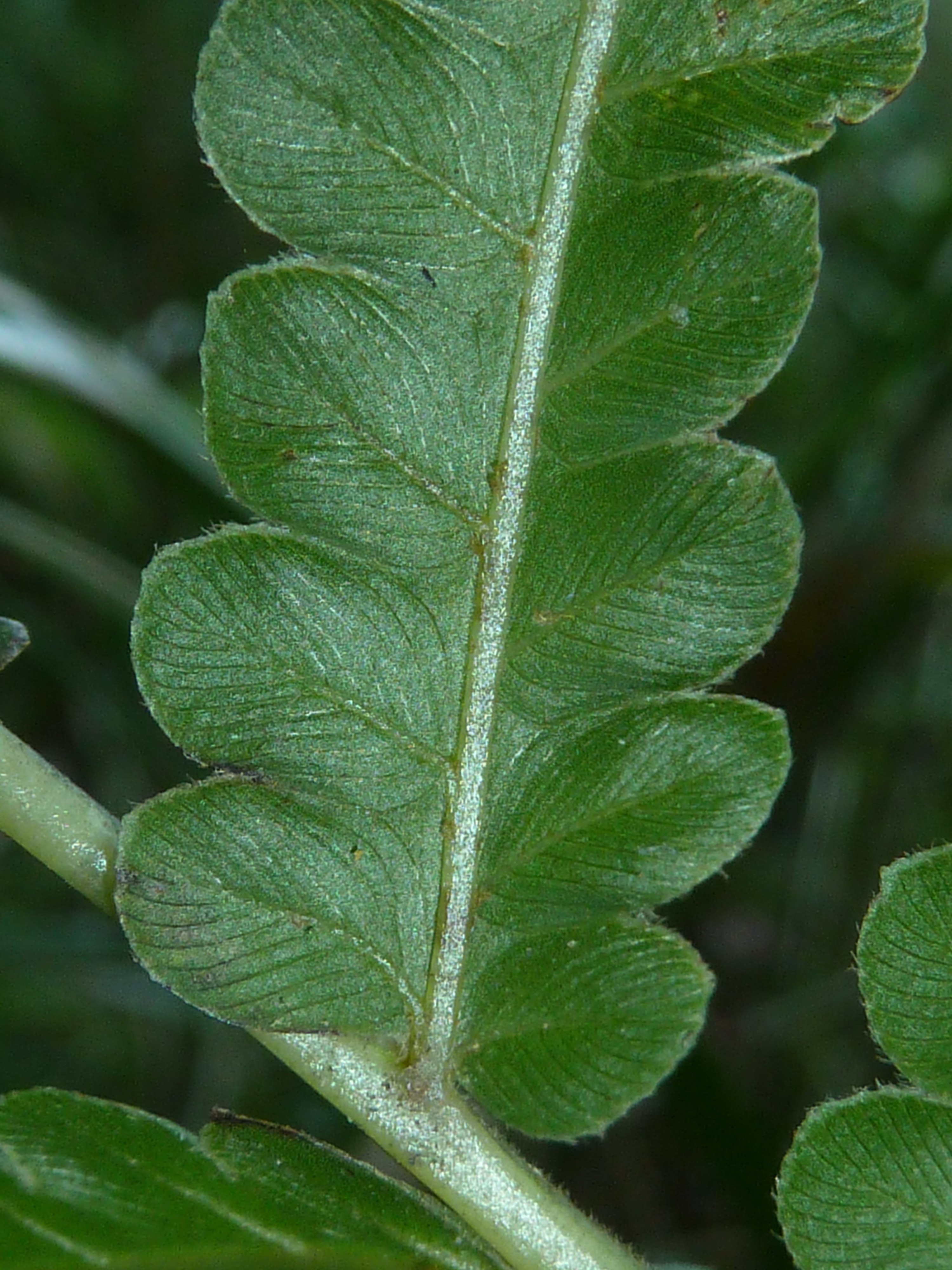 Swamp shield-fern, detail of the underside of a pinna, at Iphithi Nature Reserve, KwaZulu-Natal